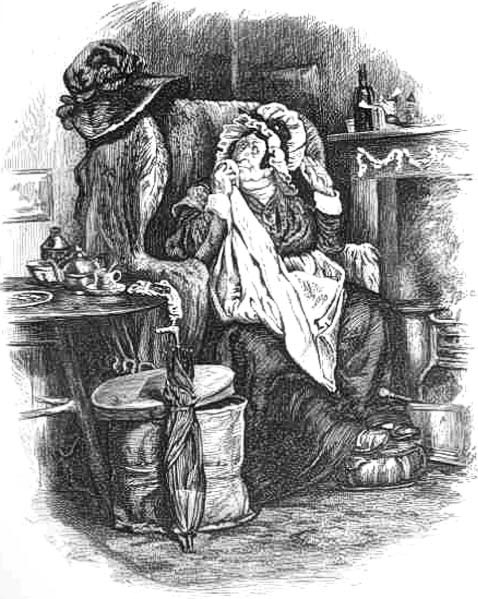 "Mrs. Gamp, on the Art of Nursing", 4.4 x 5.8 inches, (Sarah Gamp and fellow-nurse Betsey Prig have a falling out), Illustration for Charles Dickens's "Martin Chuzzlewit"